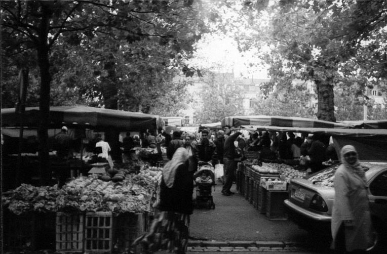 Wazemmes market. Black and white picture